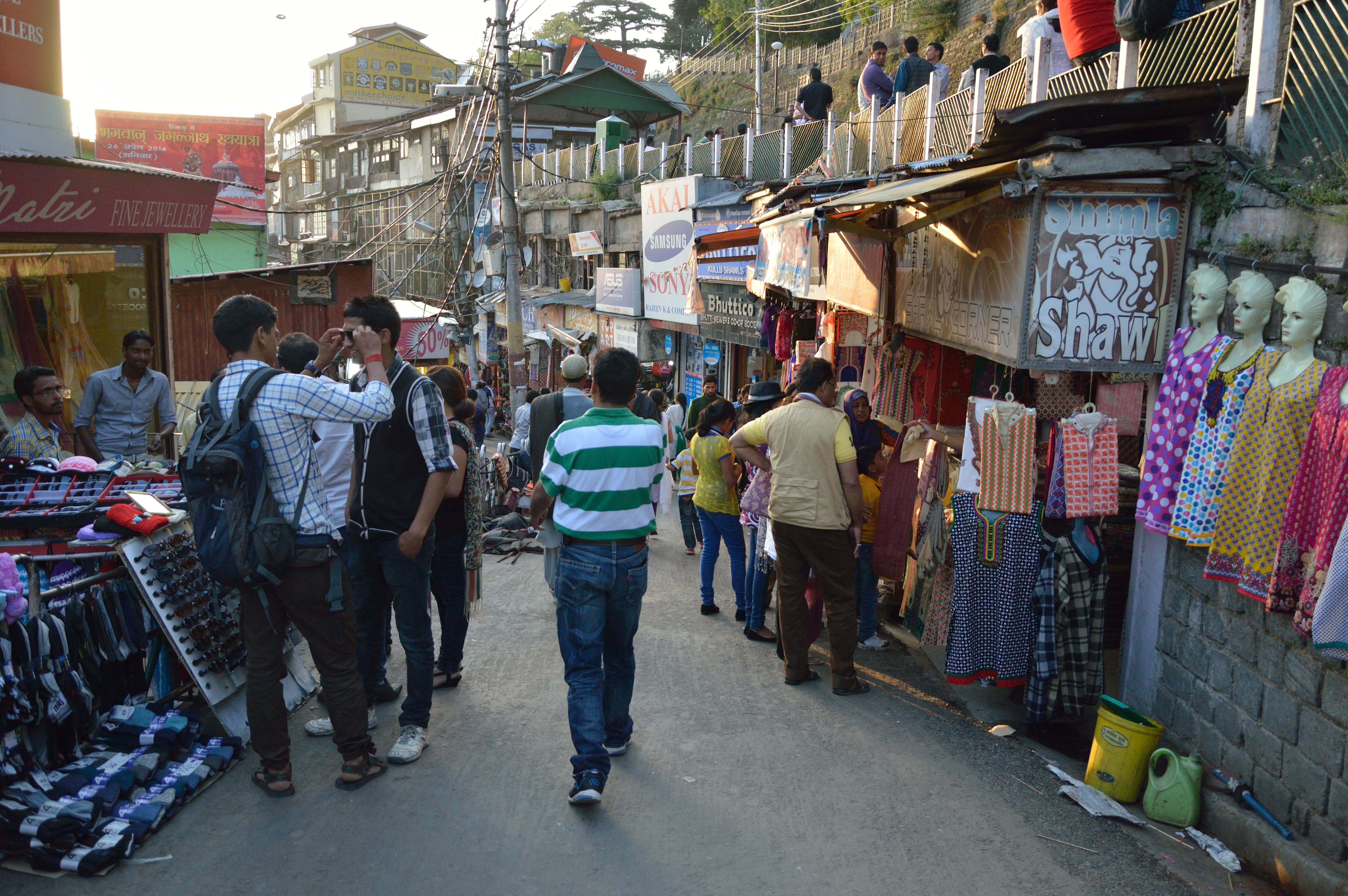 Photographed in Shimla.